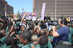 The Odyssey 2050 team in Durban for COP 17